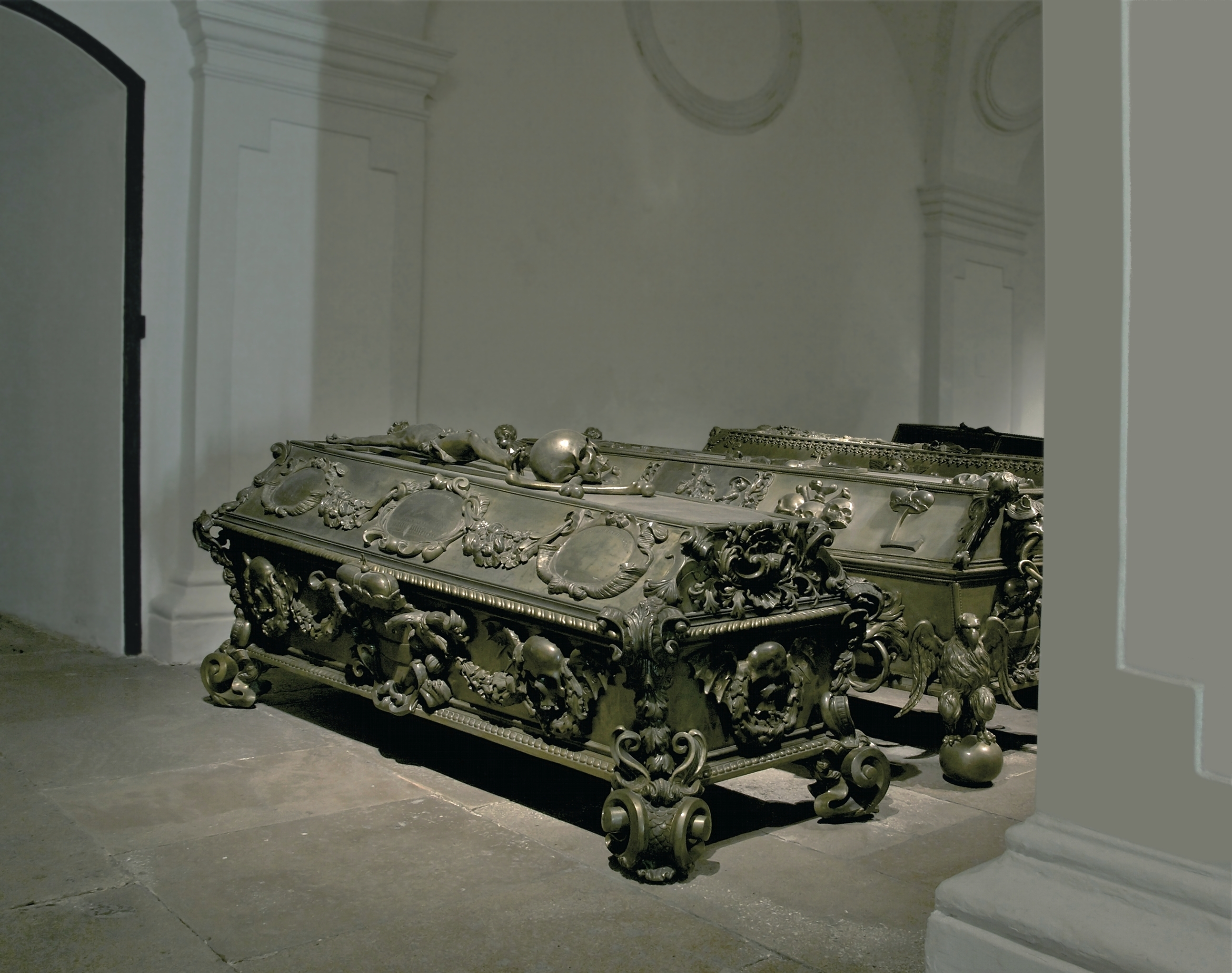 Sarcophagus of Archduchess Maria Theresa of Austria (1684–1696), daughter of Leopold I, Holy Roman Emperor, died at twelve of smallpox. Leopoldgruft in Kaisergruft, Vienna, Austria.